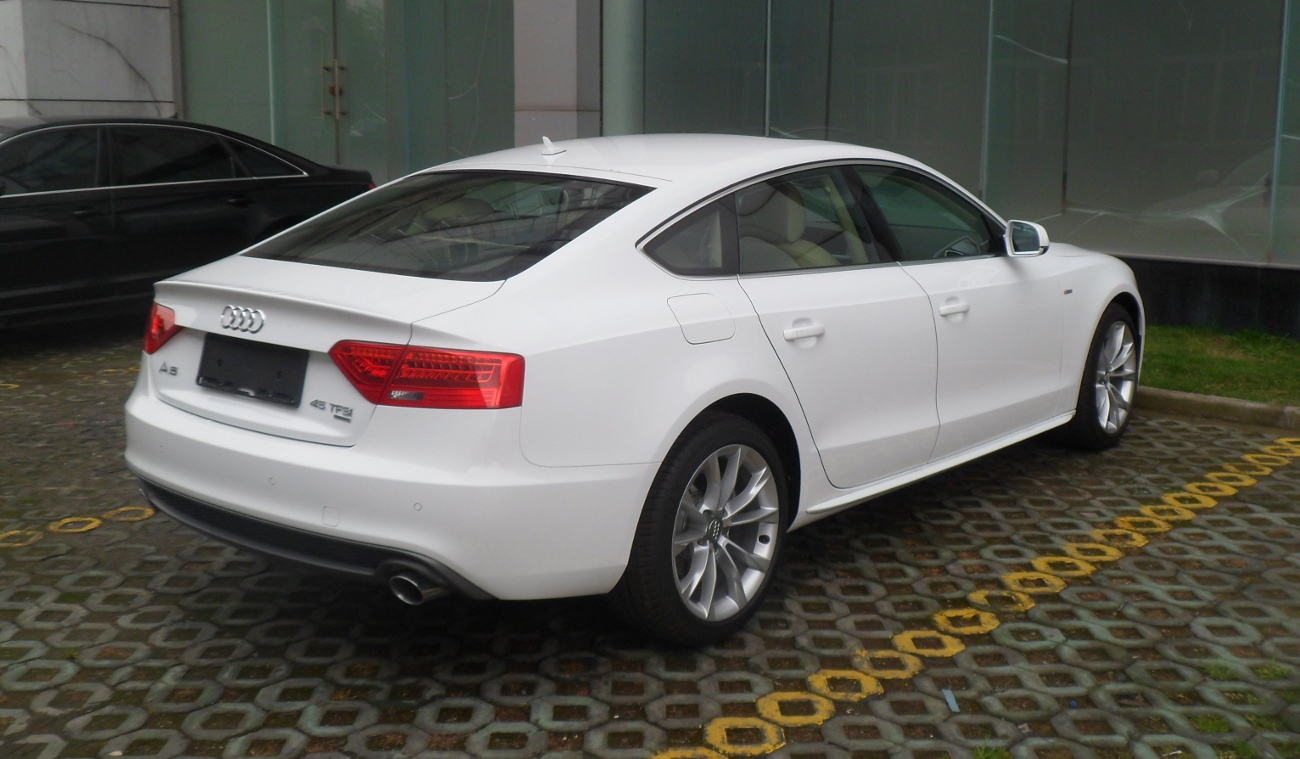 Audi A5 8T Sportback facelift photographed in Anting, Shanghai municipality, China.